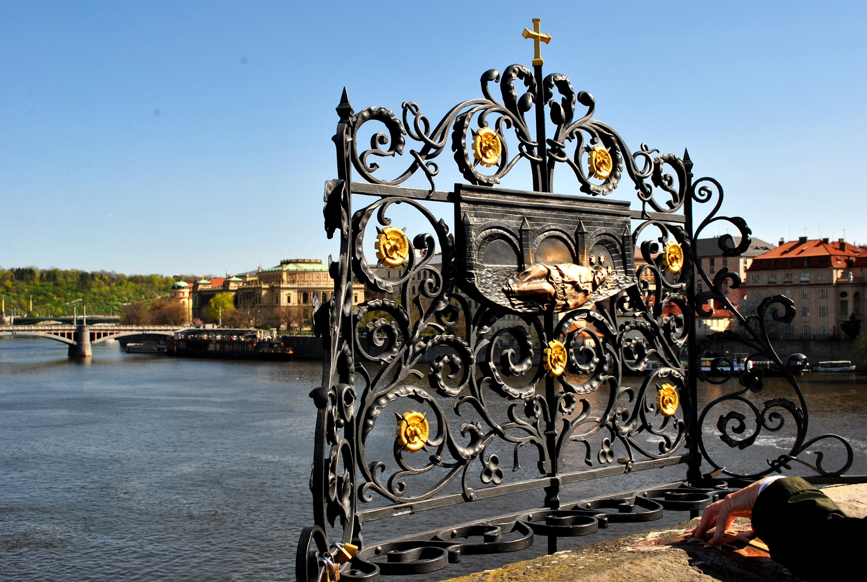 The location where John of Nepomuk, the first martyr who sunk in the Vltava river.